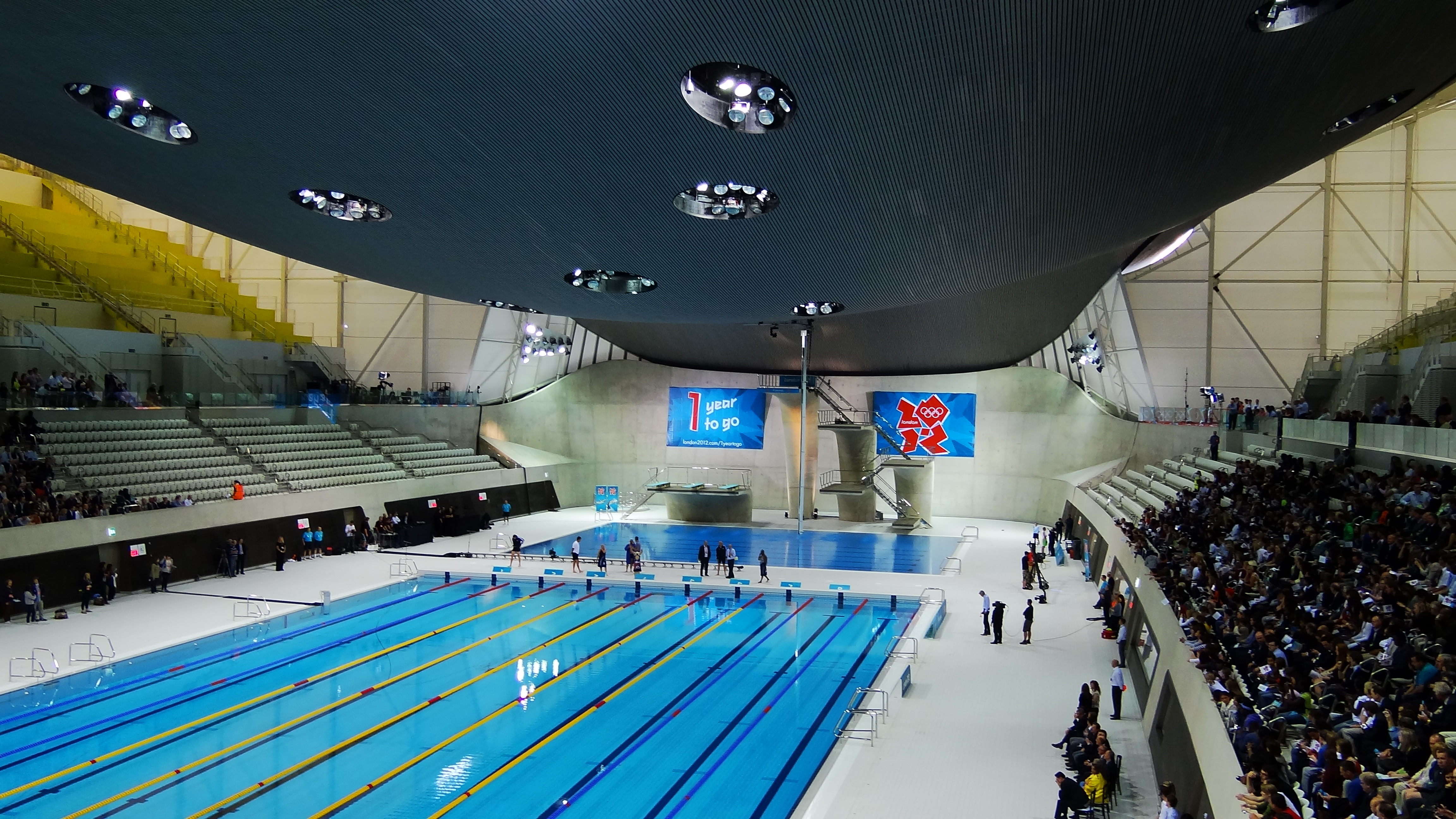 The London Aquatics Centre during its unveiling in July 2011